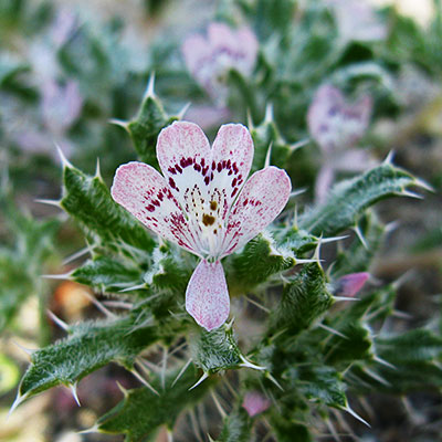 Loeseliastrum matthewsii Joshua Tree National Park, California, USA